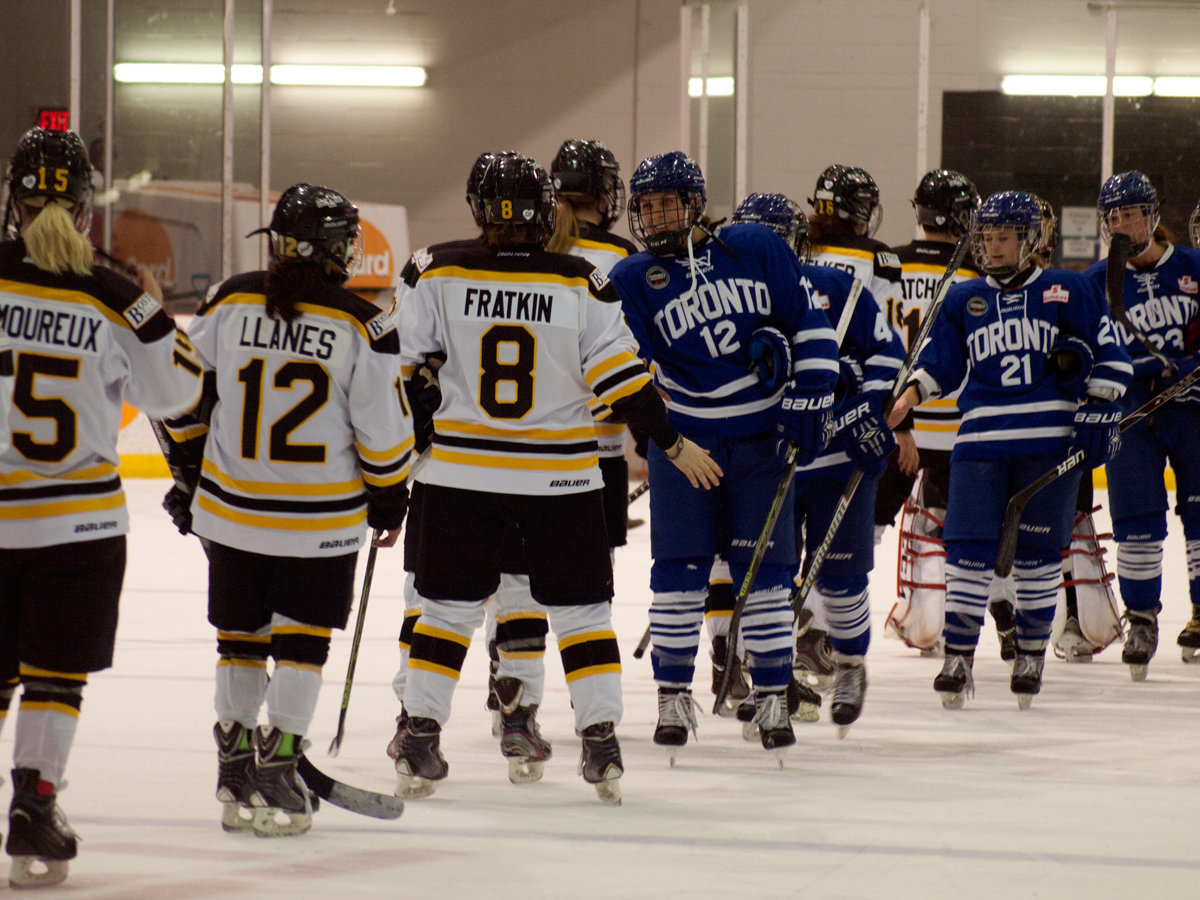 Toronto: #12 Megan Bozek, #21 Kelly Terry, #23 Shannon Moulson Boston: #15 Monique Lamoureux, #12 Rachel Llanes, #8 Kaleigh Fratkin